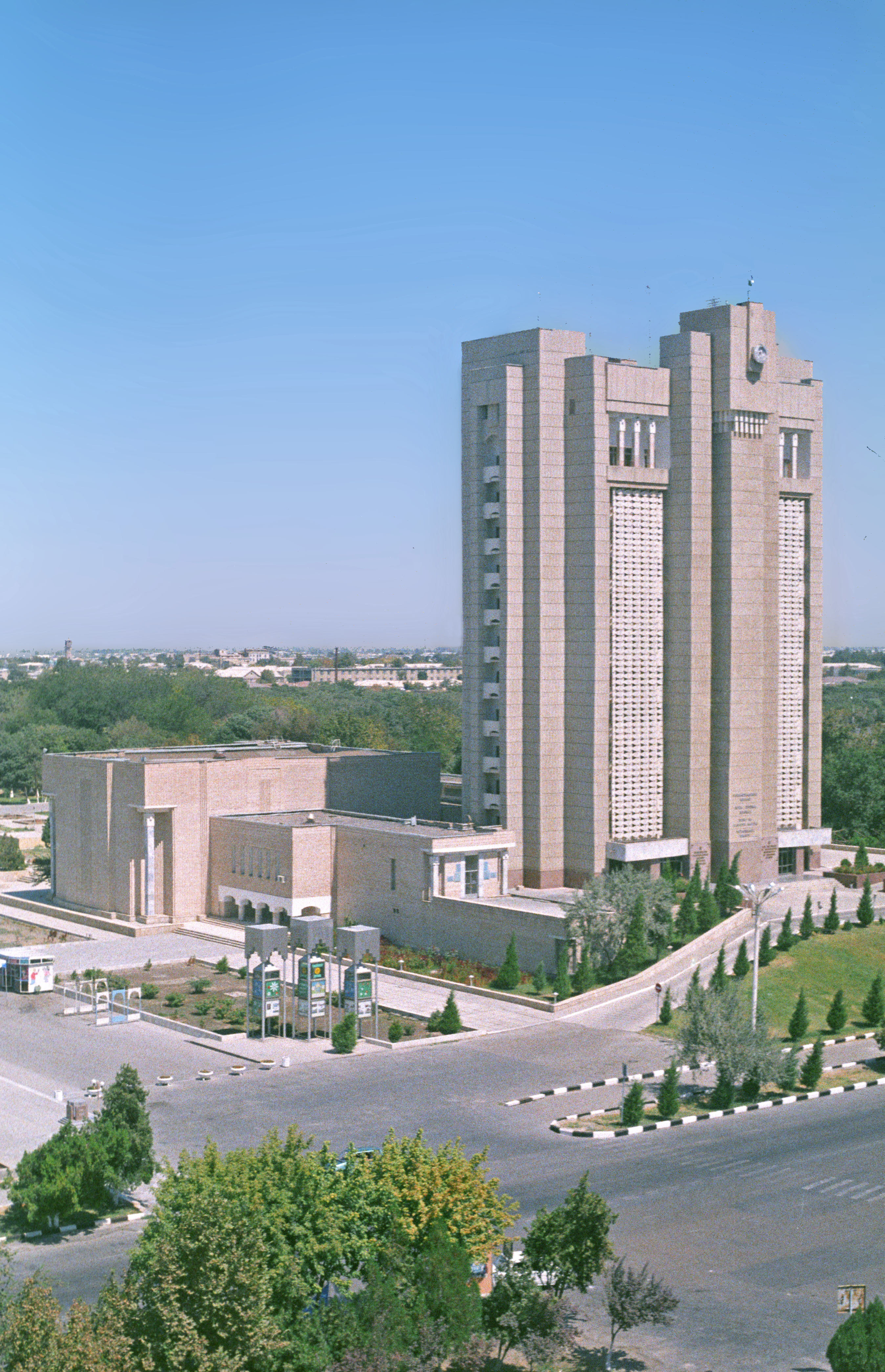 Uzbekistan: Administration building, Bukhara